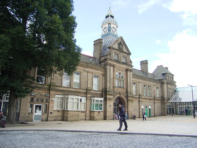 Market Hall, Darwen, Lancashire, England. Opened in 1871 the Hall also doubles as the Town Hall.